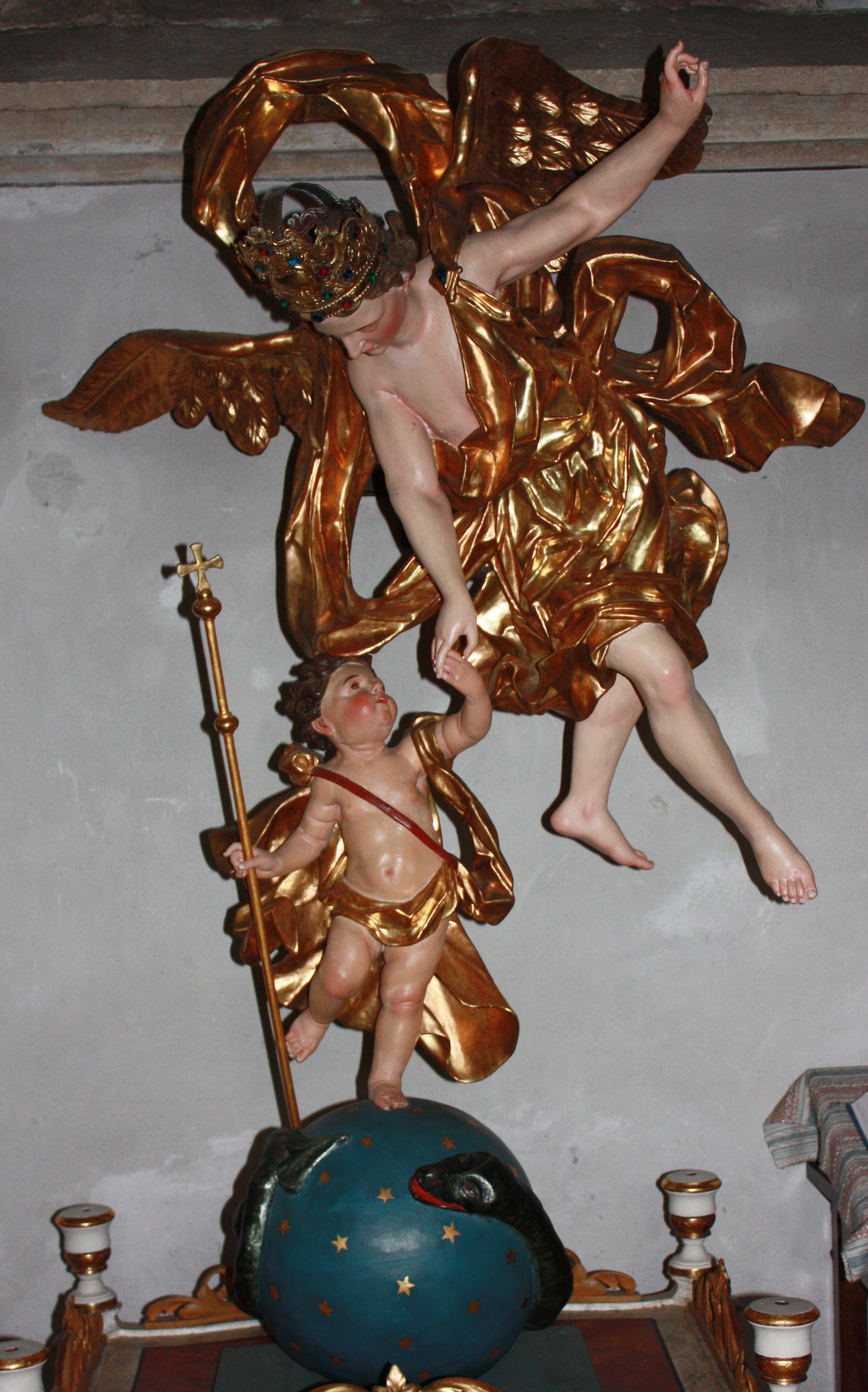 Parish church Saint Andrew - sculpture Locality:Pfarrgasse Community:Lienz